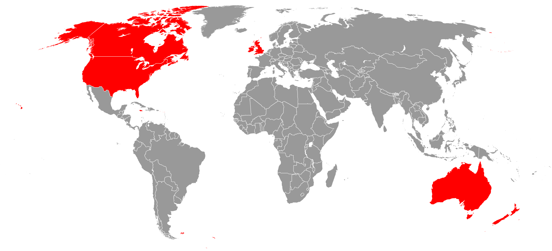 Countries where English is spoken natively by the majority of the population.